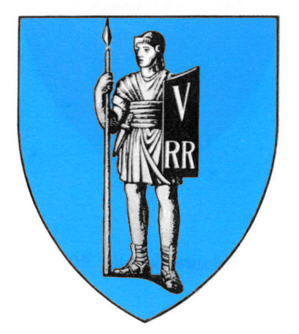 Interwar coat of arms of Alba County, Kingdom of Romania.